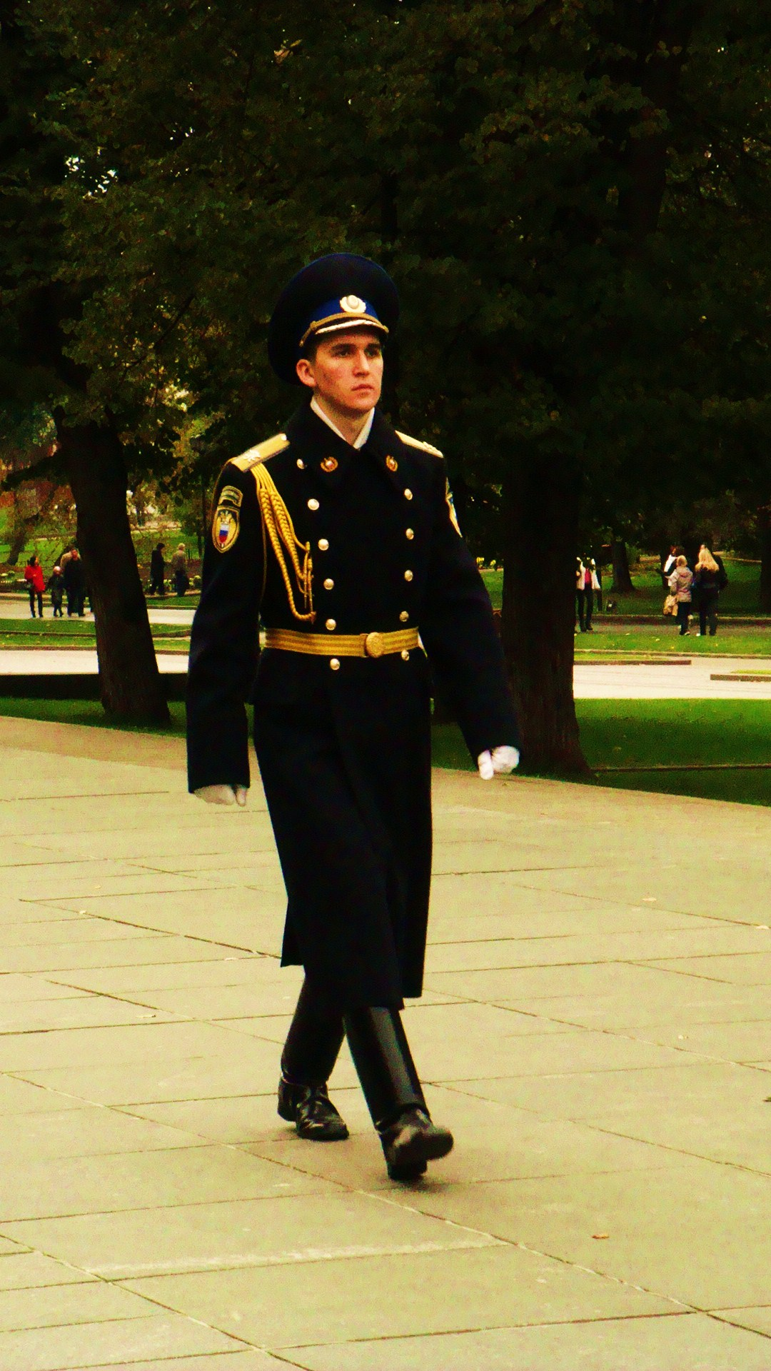 A soldier of Kremlin Requirement. Uniform